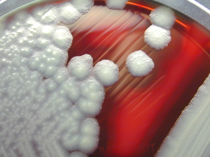 Bacillus cereus showing hemolysis on sheep blood agar. B. cereus is a Gram-positive beta hemolytic bacteria, which may live in an environment with or without the presence of oxygen, i.e. facultative aerobe.